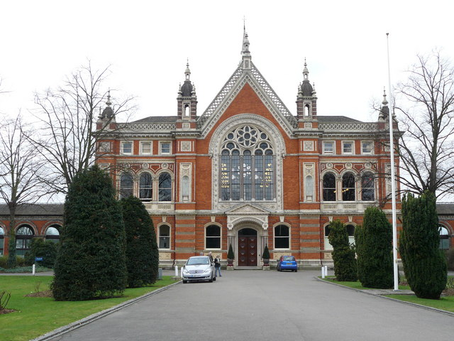 Dulwich College, Main Entrance. Impressive facade, photographed from College Road.